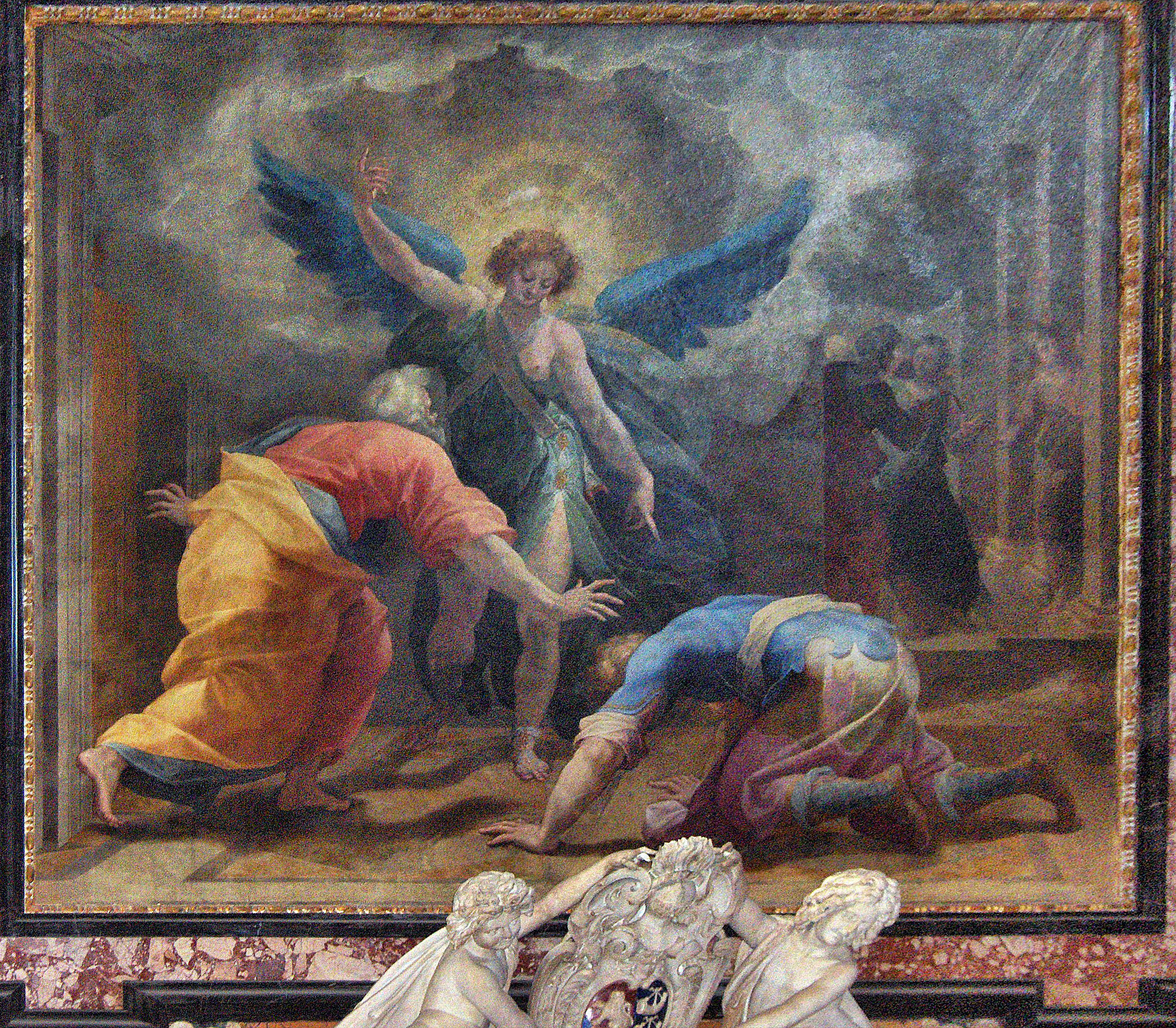 The Archangel Rafael and Tobias